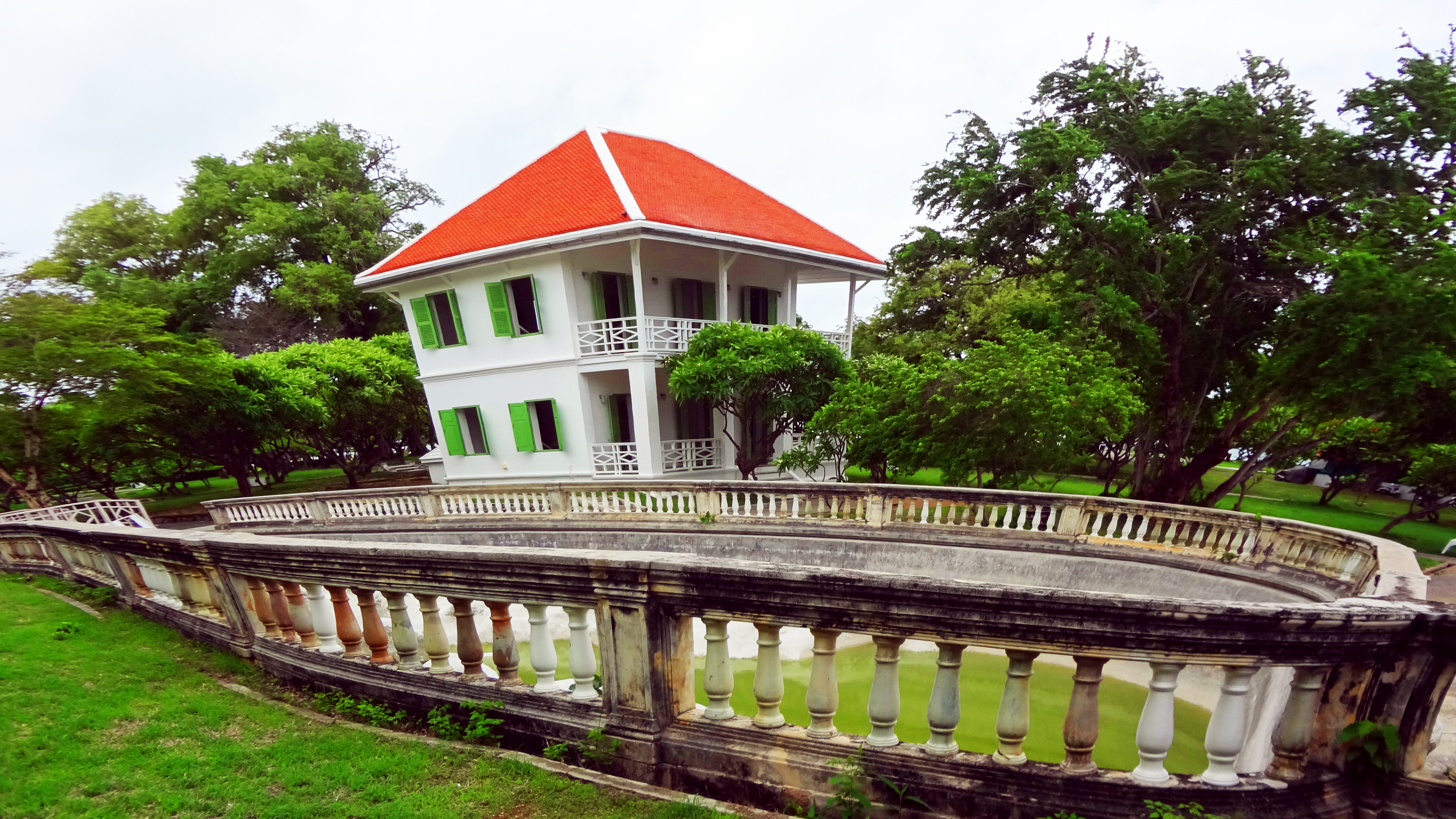 Vadhana Building, Phra Chuthathut Ratchathan (Sichang Palace), Tha Thewawong Subdistrict, Ko Sichang District, Chon Buri Province